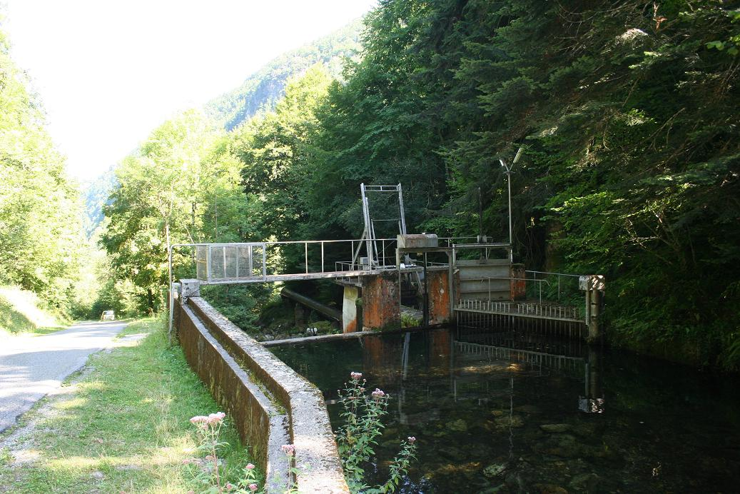 Hydroelectric installation on Courbière